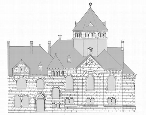 Architect drawing of the synagogue in Alsfeld, built in 1905 and destroyed by the nazis in 1939